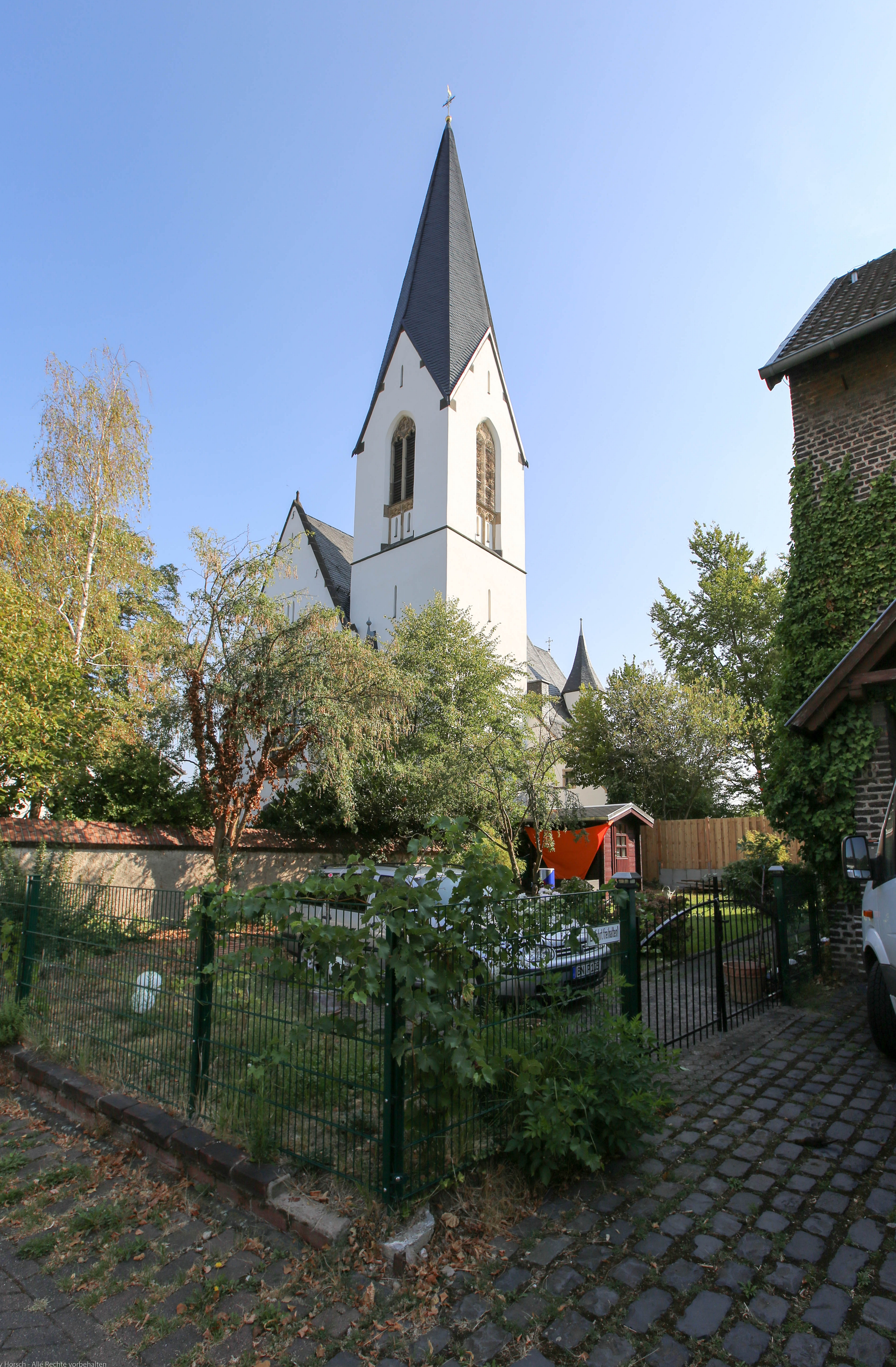 Catholic Church Seven Dolors of Our Lady, Germany